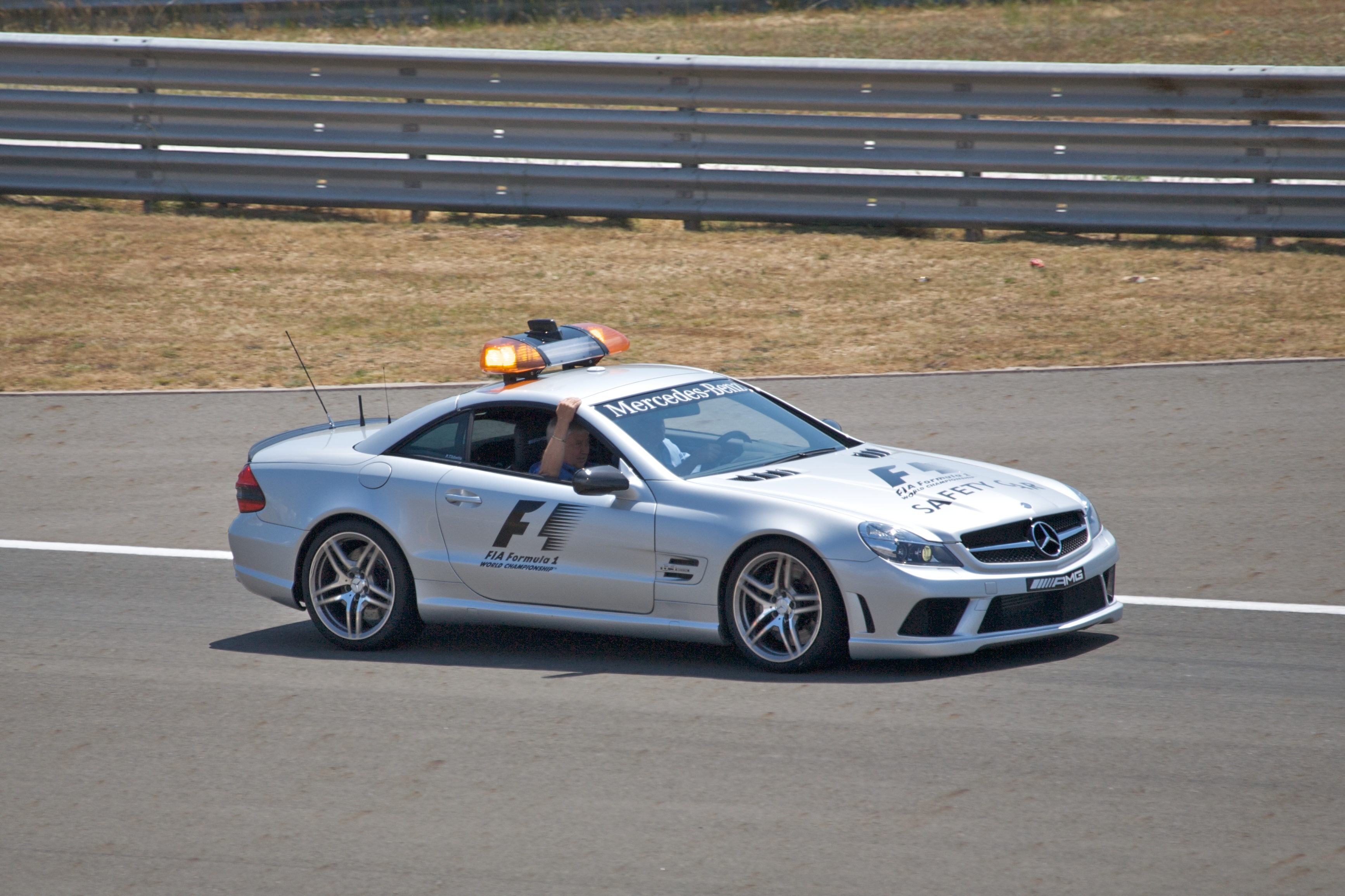 Bernd Mayländer driving the safety car on a test lap